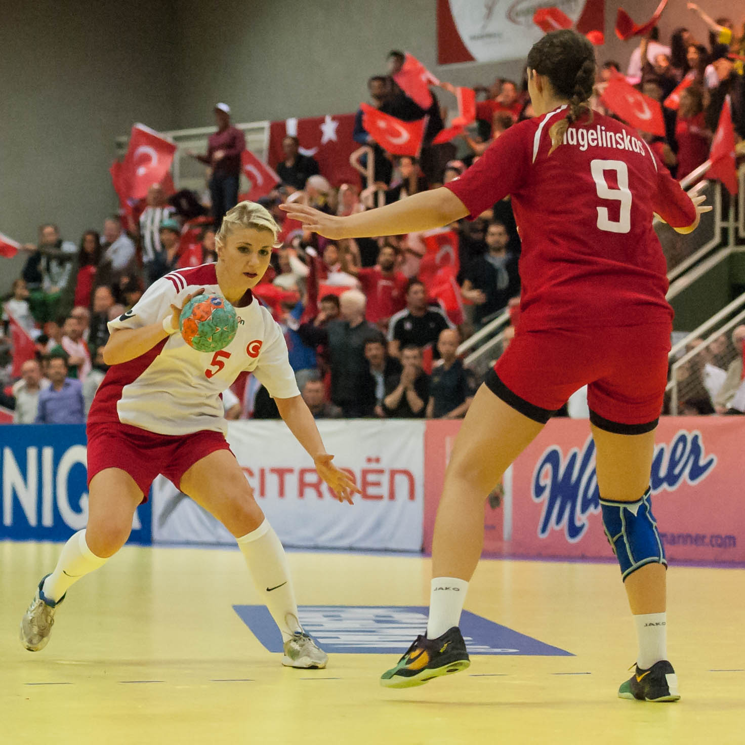 2015 World Women's Handball Championship Qualification 2014-12-06: Perihan Topaloğlu